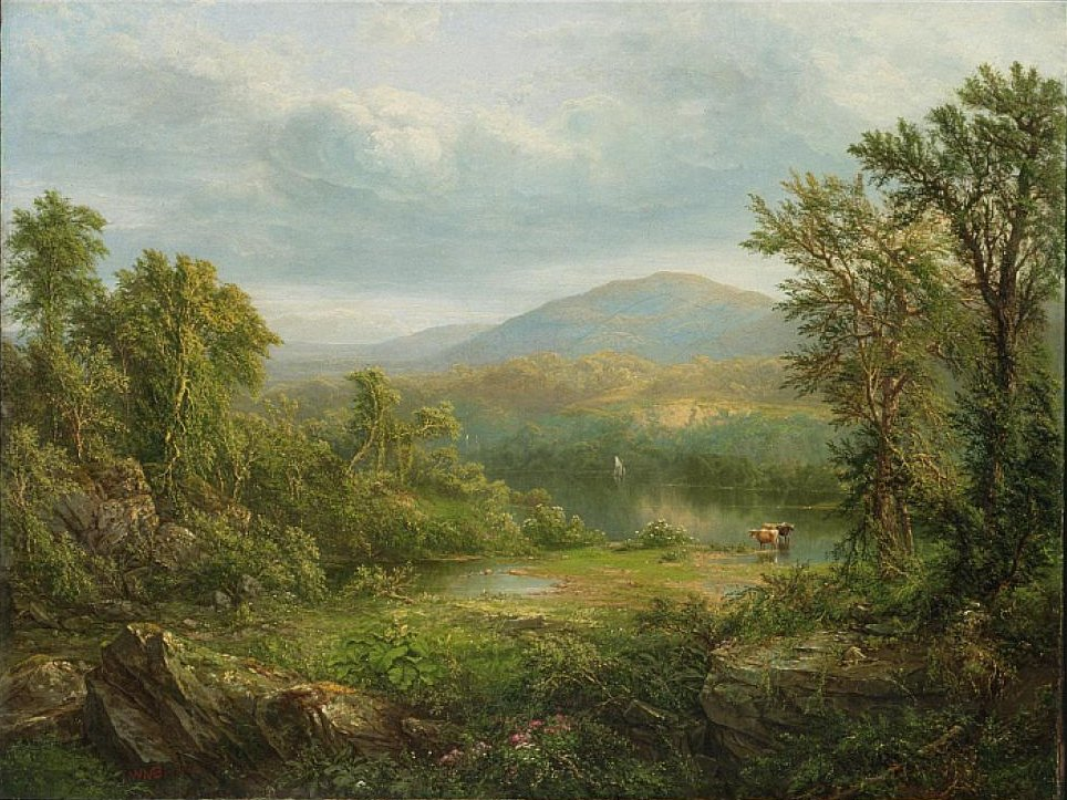 Lake Losepe by William Mason Brown, oil on canvas, 23¼ x 30¼ in. (59.1 x 76.8 cm), Herbert F. Johnson Museum of Art